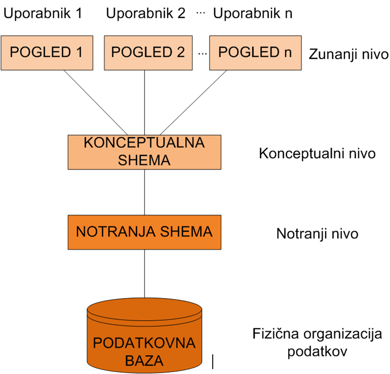 tri-nivojska arhitektura